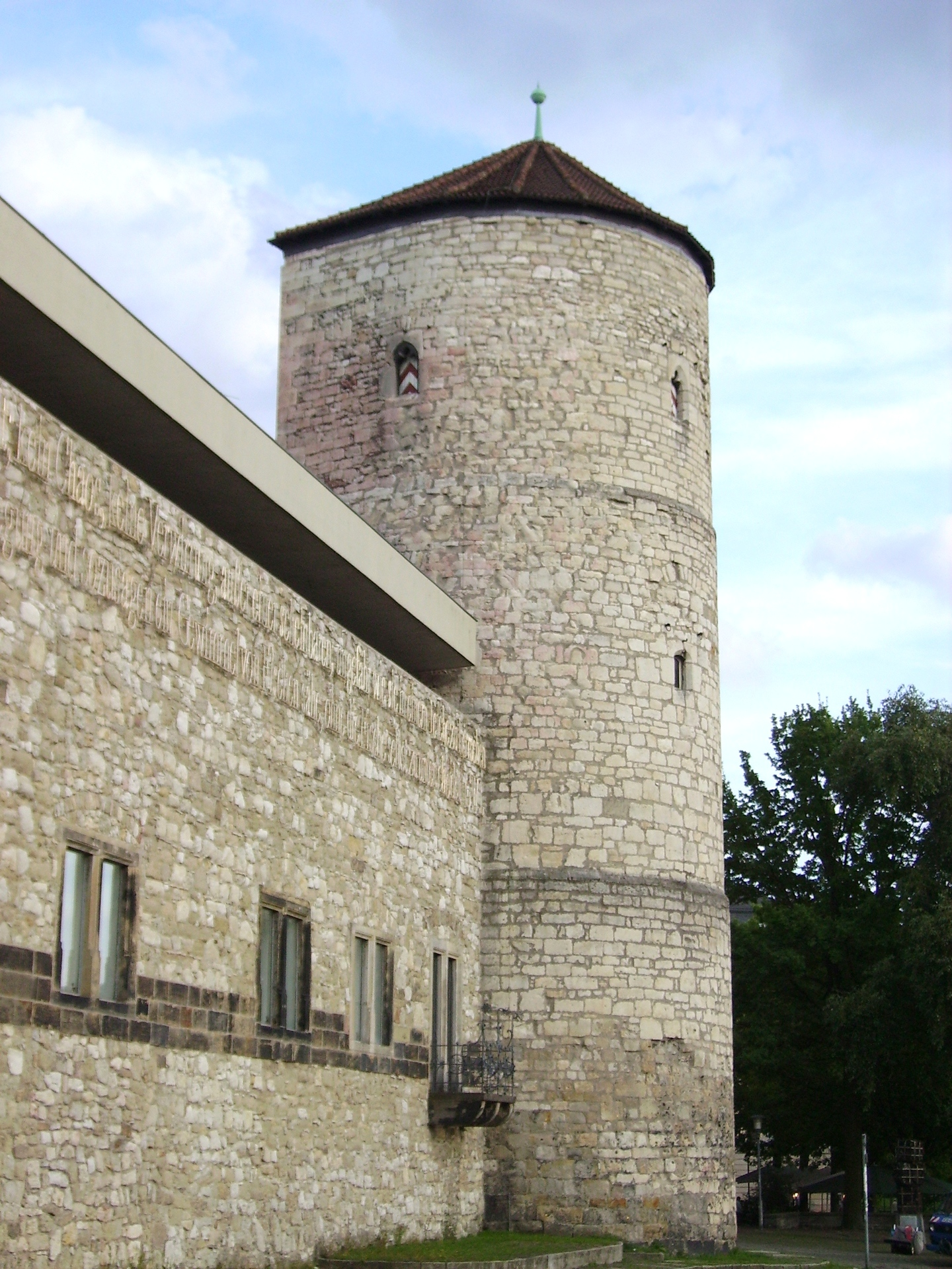 The "Beginenturm" (Beginen-tower) in Hanover, Germany